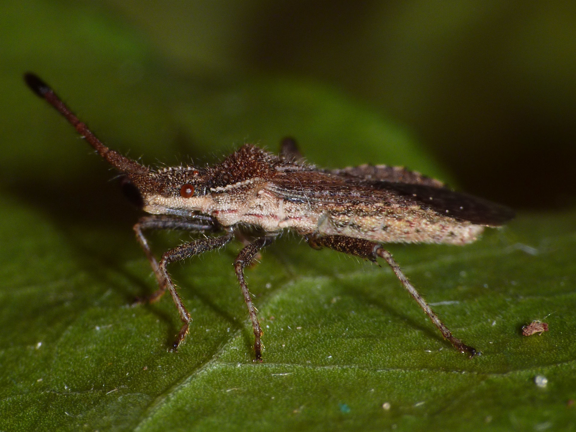 Coriomeris denticulatus part of series of images showing nymph and resulting imago Location: Limburg, Netherlands